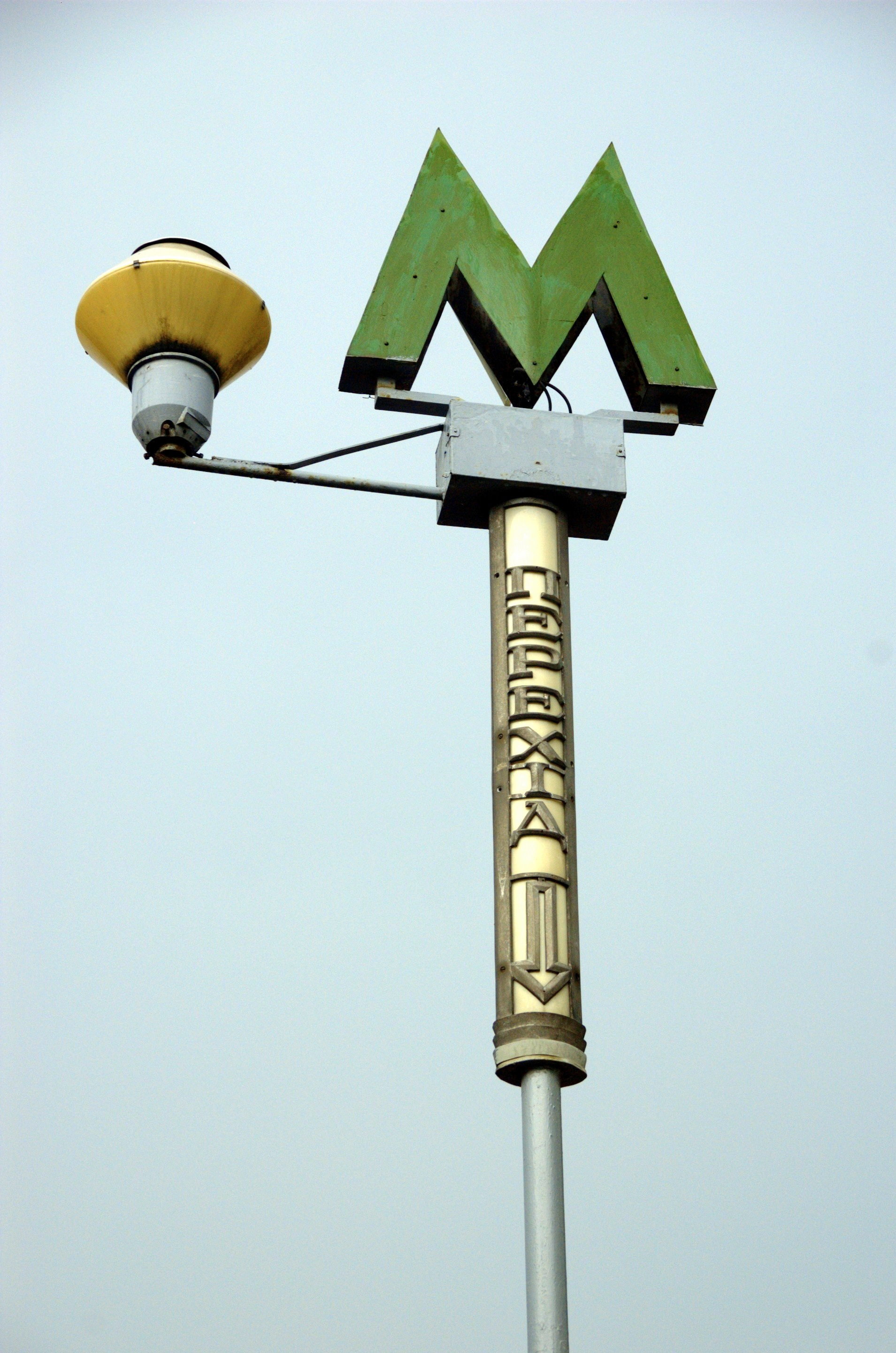 The typical green M at the entrance of a metro station in Kiev